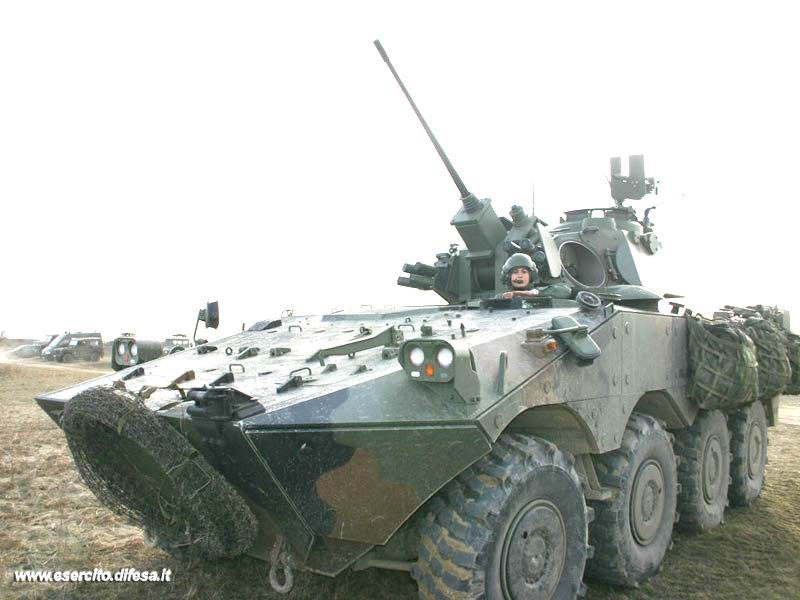 Centauro Tank VBC configuration; Italian Army. Downloaded from the official homepage of the Italian Army.